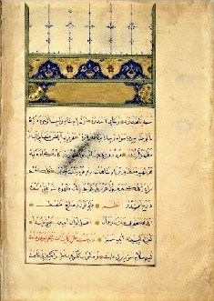 Front page. Mahmud Tercüman - The History of the Hungarians. Sourceː [1] Translated in the 1560' by Mahmud Tercüman from latin to turkish language, probable with the help of Somlyai Balázs (Murad).